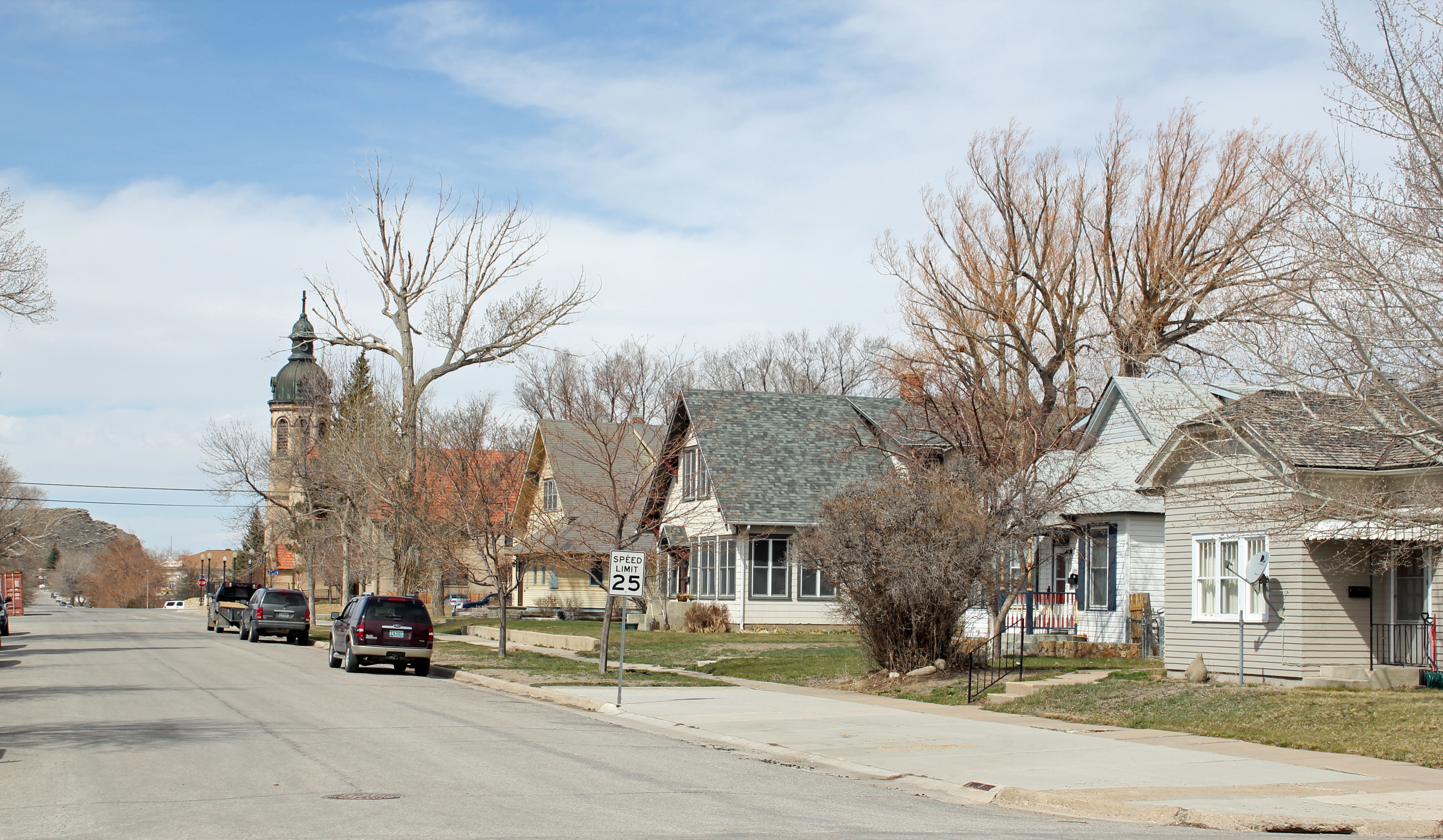 The Rawlins Residential Historic District in Rawlins, Wyoming. The district is listed on the National Register of Historic Places. The picture was taken from the intersection of 1st Street and East Pine Street, looking west.